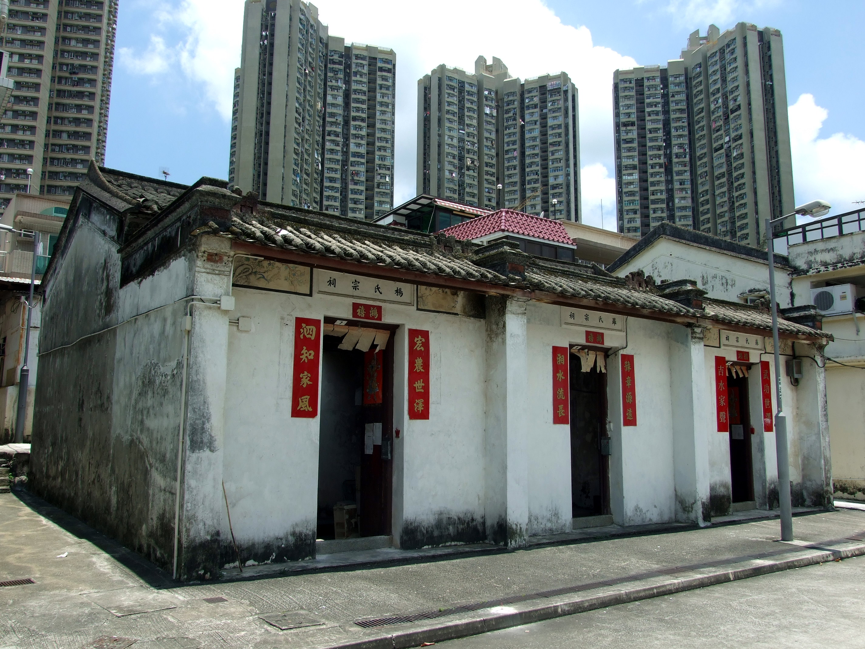 中文（香港）: 沙田顯田楊氏宗祠, 羅氏宗祠, 蘇氏宗祠 A row of three ancestral halls in Hin Tin village, Tai Wai, Sha Tin District, Hong Kong. From left to right: Yeung Ancestral Hall, No. 7 Hin Tin Law Ancestral Hall, No. 8 Hin Tin So Ancestral Hall, No. 9 Hin Tin The blocks in the background belong to Hin Keng Estate.